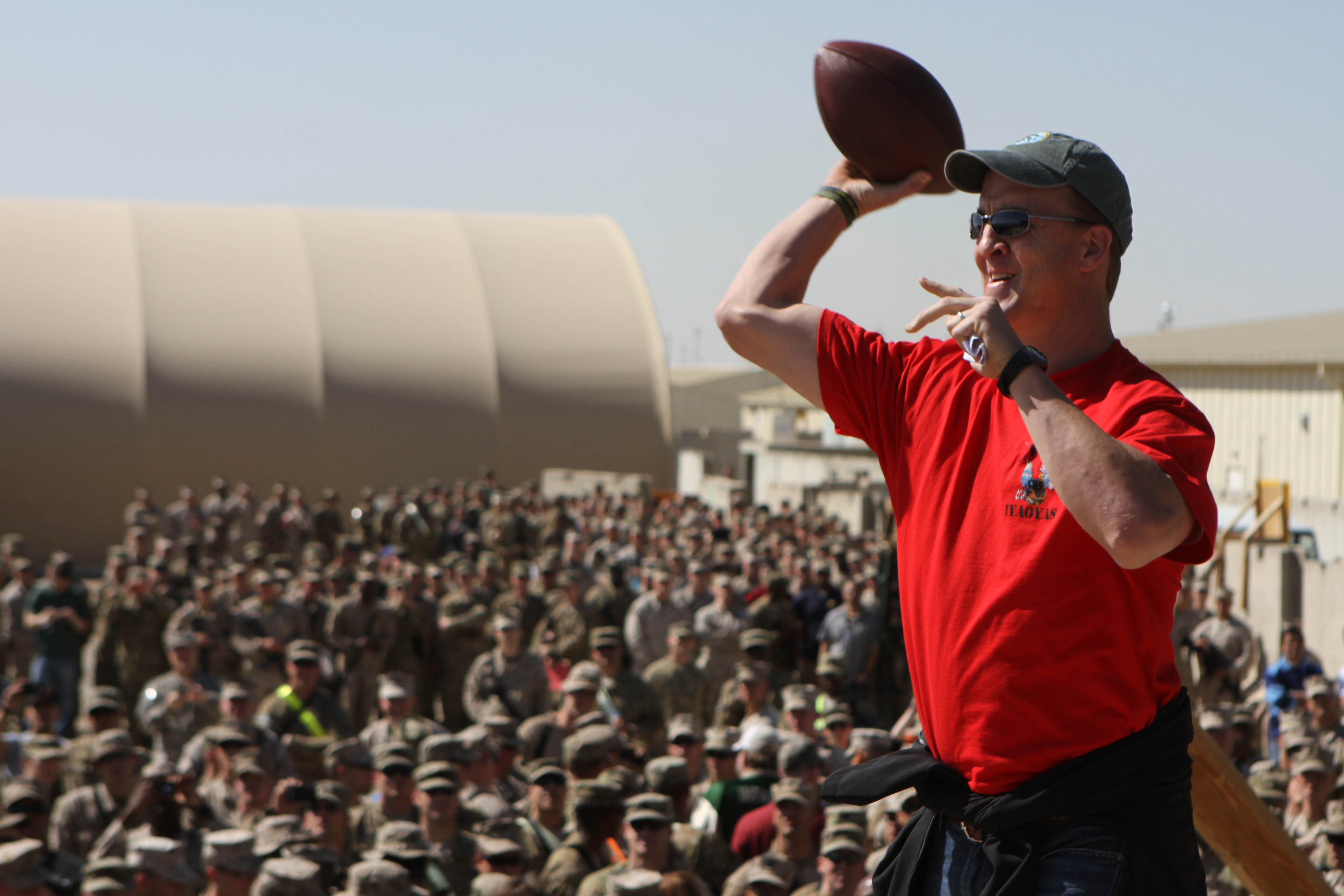 Four-time National Football League Most Valuable Player and Denver Broncos quarterback Peyton Manning demonstrates a quarterback-receiver "connection" here, March 1, during the USO Spring Troop Visit. Celebrities visiting included Dallas Cowboys cheerleaders, Tampa Bay Buccaneers receiver Vincent Jackson, retired Major League Baseball pitcher and three-time World Series winner Curt Schilling, Indianapolis Colts receiver Austin Collie, quarterbacks coach Clyde Christensen, and American Idol's season three runner-up Diana Degarmo and season five finalist Ace Young. The weeklong tour included stops to various military installations such as Walter Reed National Military Medical Center in Bethesda, Md., Joint Base Andrews, Md., Camp Lemonnier, Djibouti, Naval Air Station Rota, Spain, Naval Air Station Sigonella, Italy, and other locations.